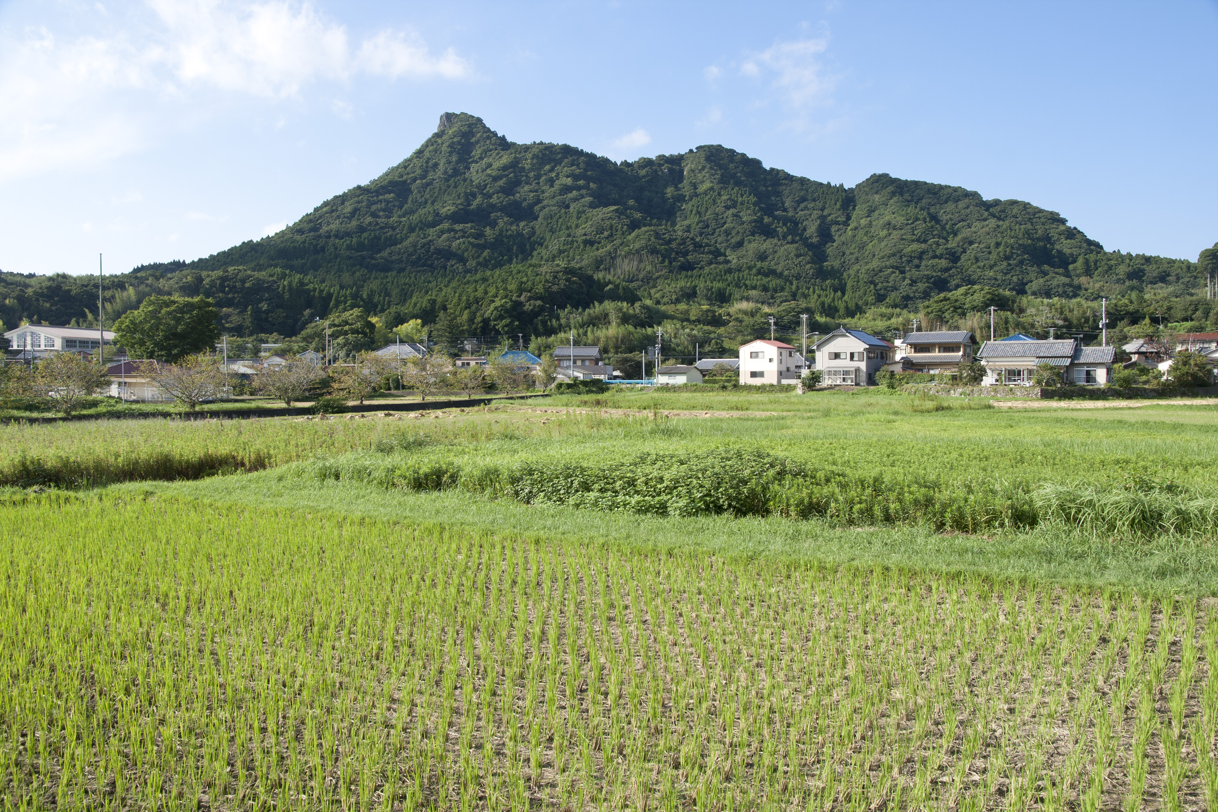 Mount Iyogatake in Minamiboso City, Chiba Prefecture, Japan